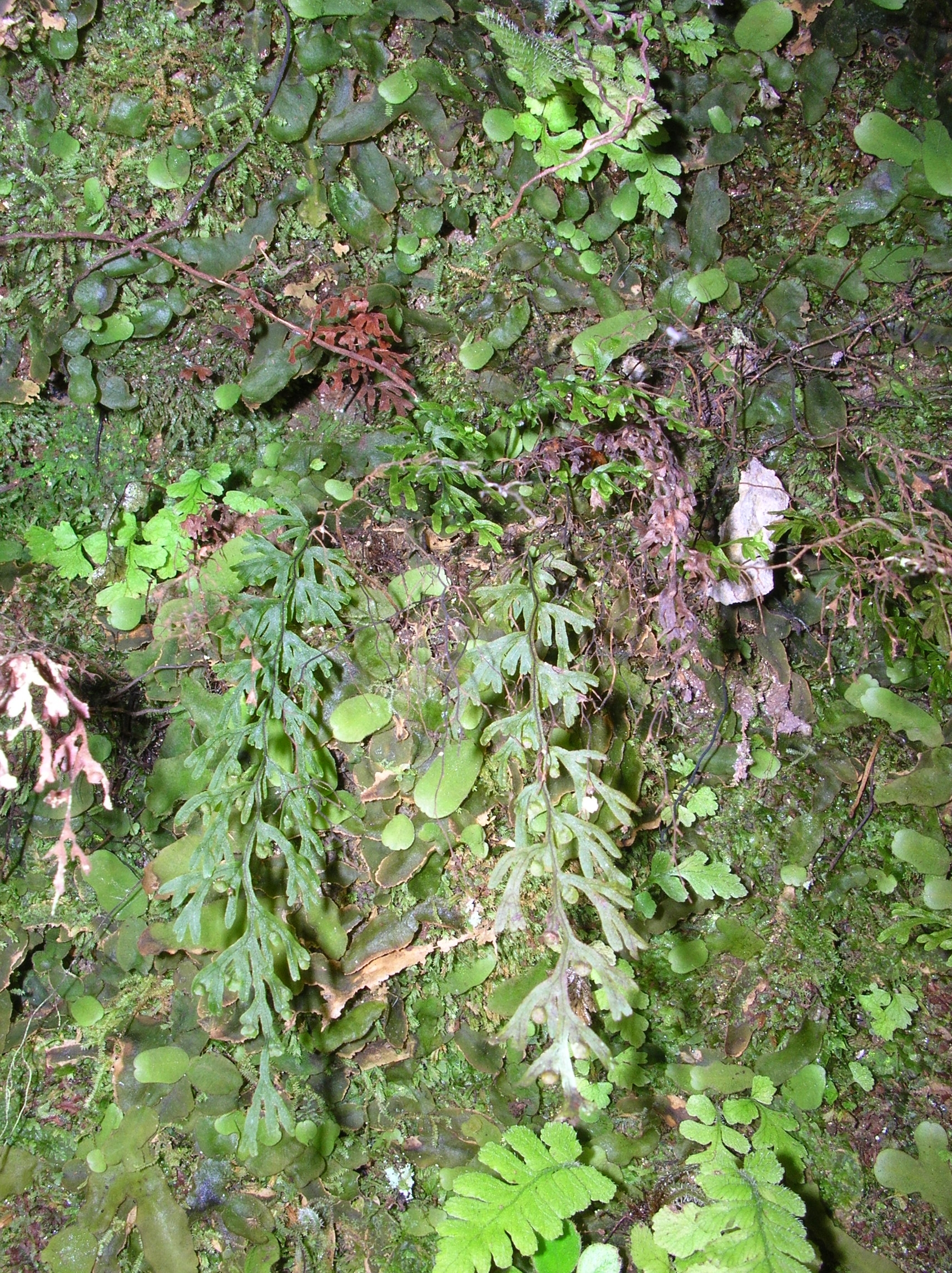 Mecodium recurvum (habit). Location: Maui, Makawao Forest Reserve